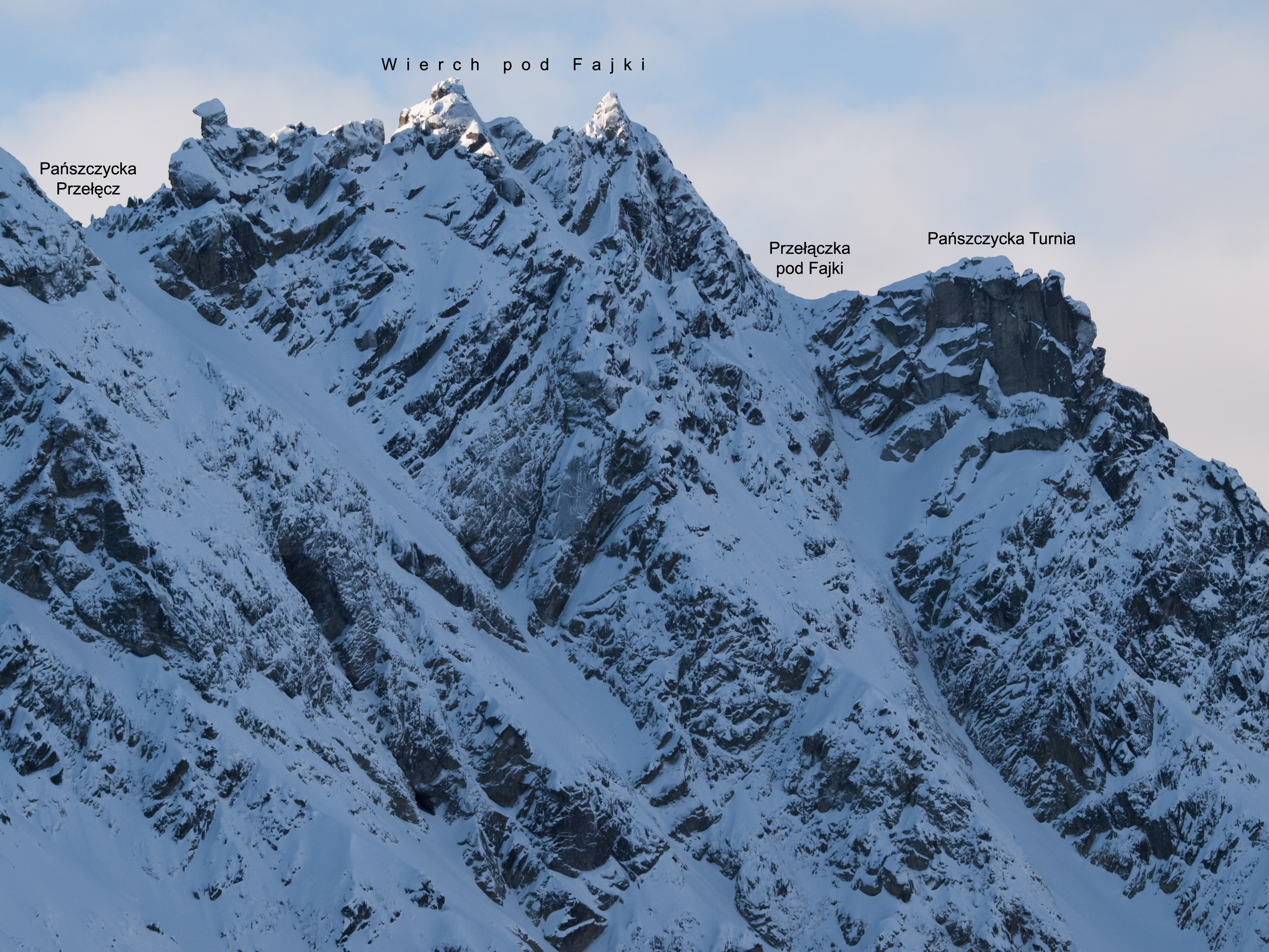 Wierch pod Fajki and Pańszczycka Turnia – view from Pańszczyca valley.